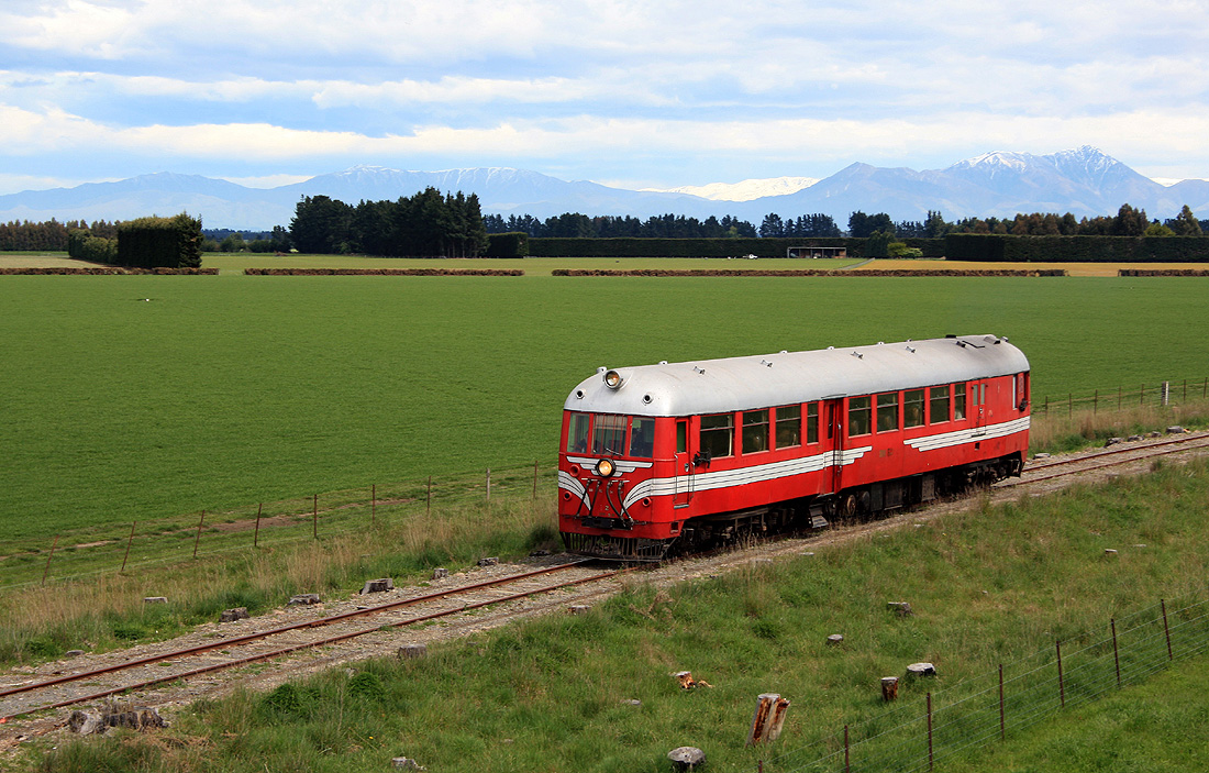 RM50 the Vulcan Railcar belonging to the Plains Railway